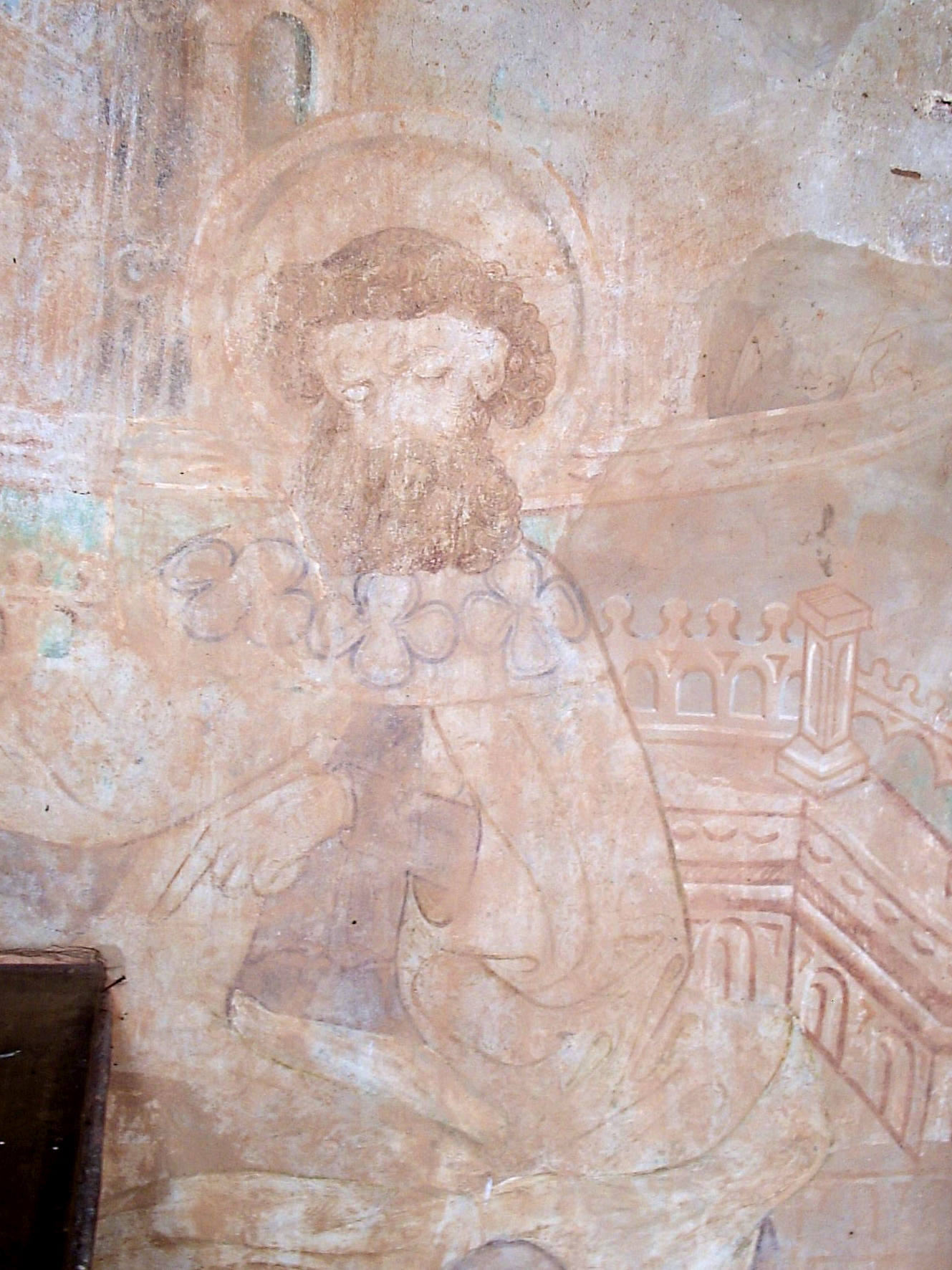 Church Knights Templar in Chwarszczany (Quartschen), Poland